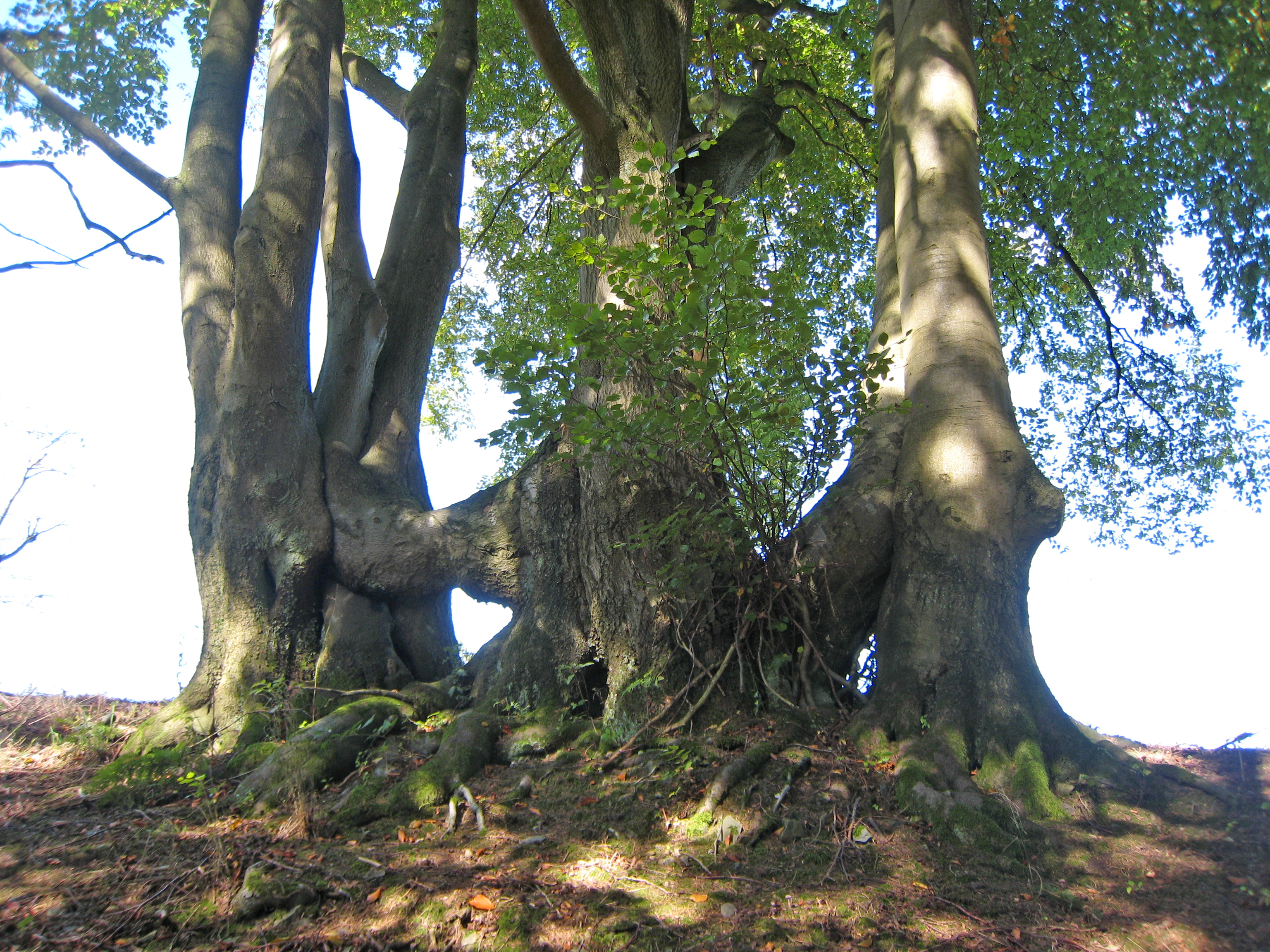 Natural physical fusion via the trunks of three common beech trees (fagus sylvatica).